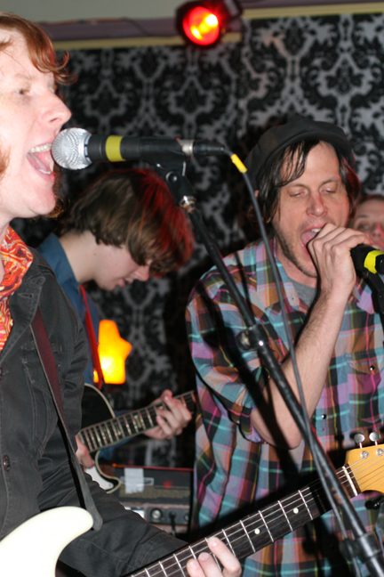 Jeff Mangum and Bill Doss play in Pittsburgh on October 18, 2008